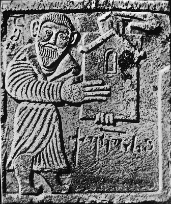 Ashot 1 of Iberia holds monastery